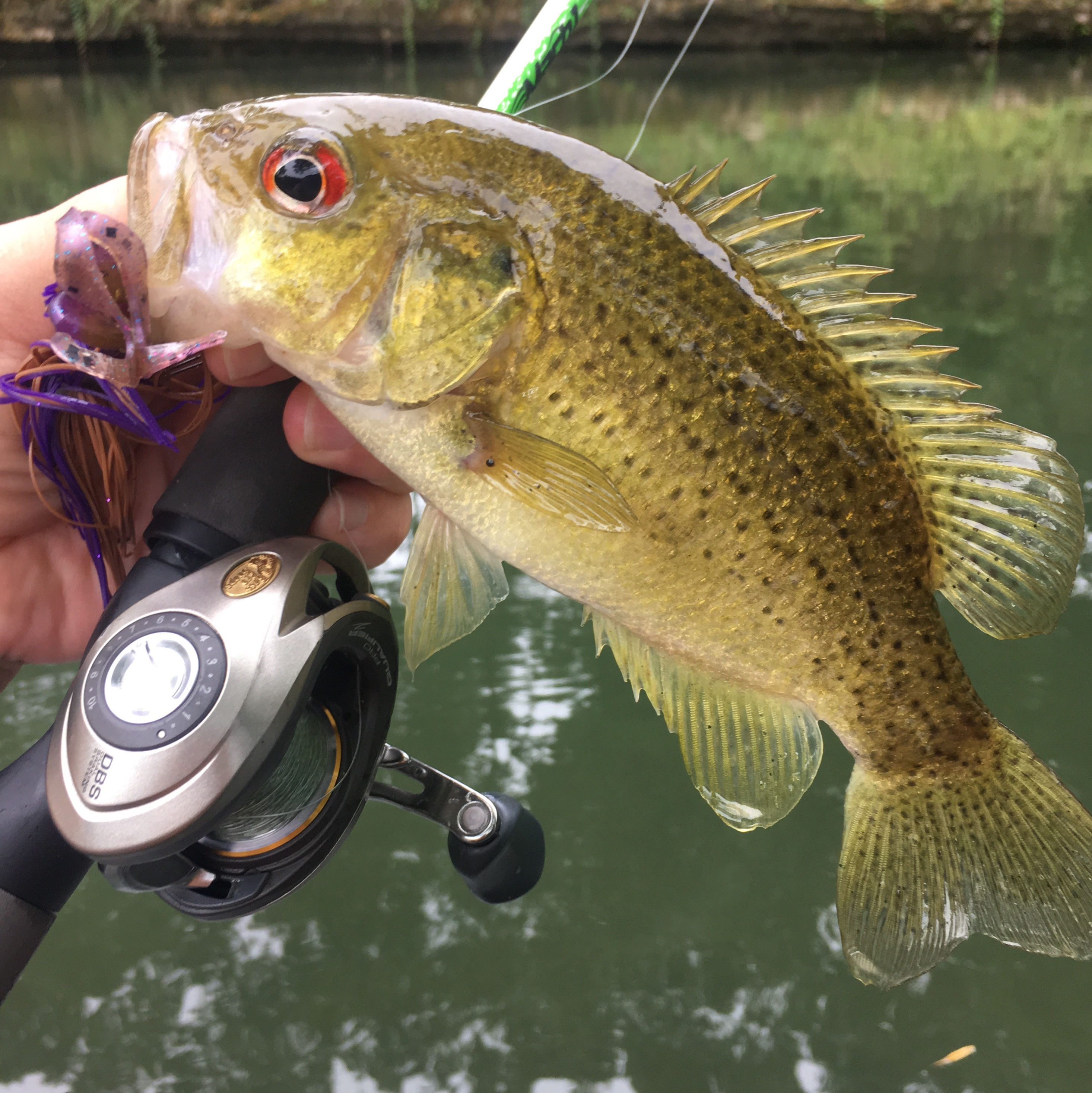 Ozark bass (Ambloplites constellatus) caught and released in the James River, Missouri, 2018.